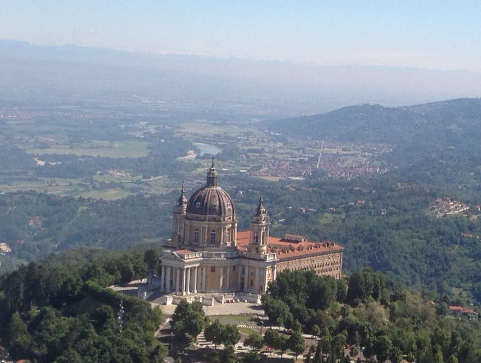 Aerial View of Superga